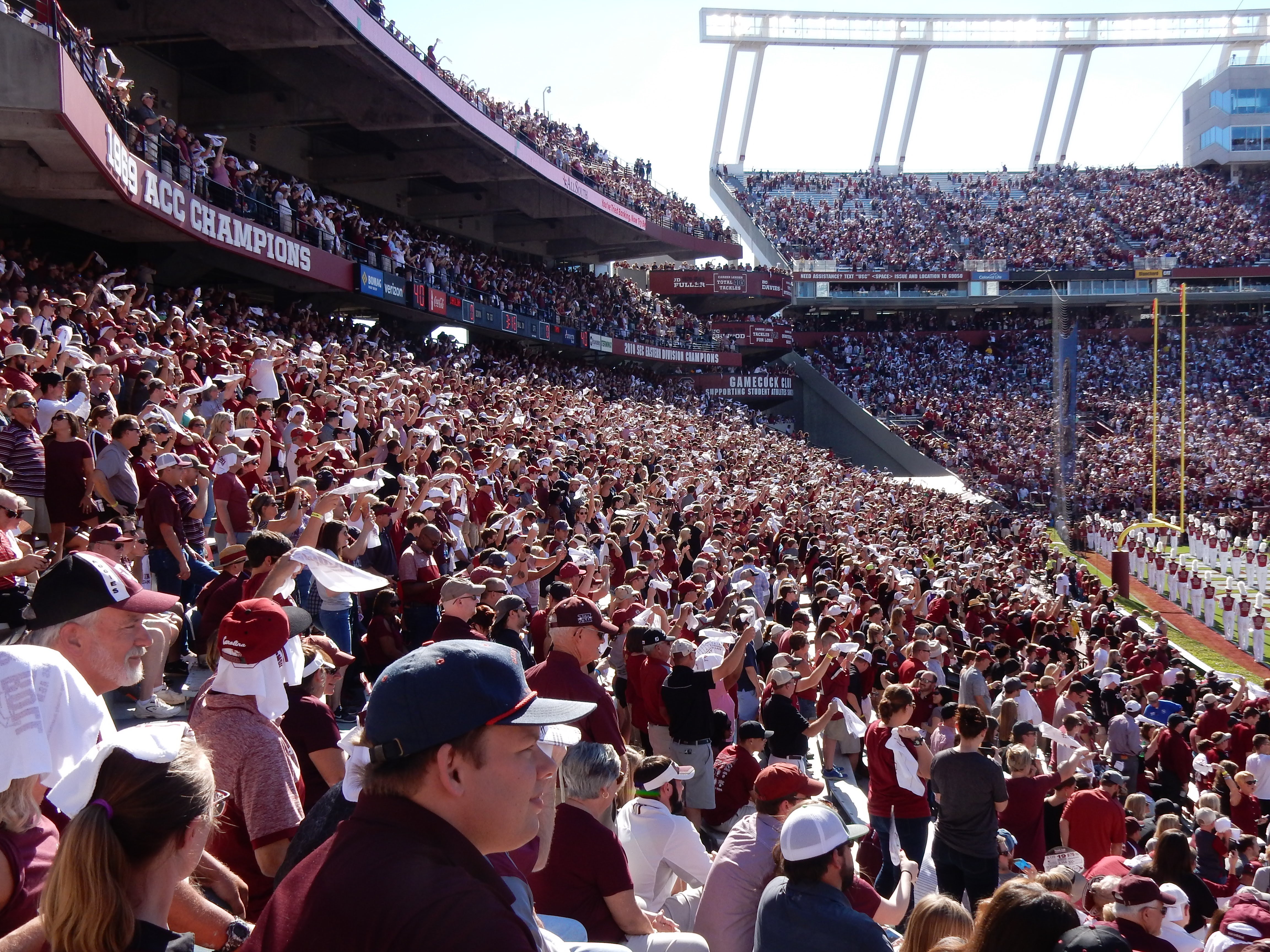 Richland County, SC, USA